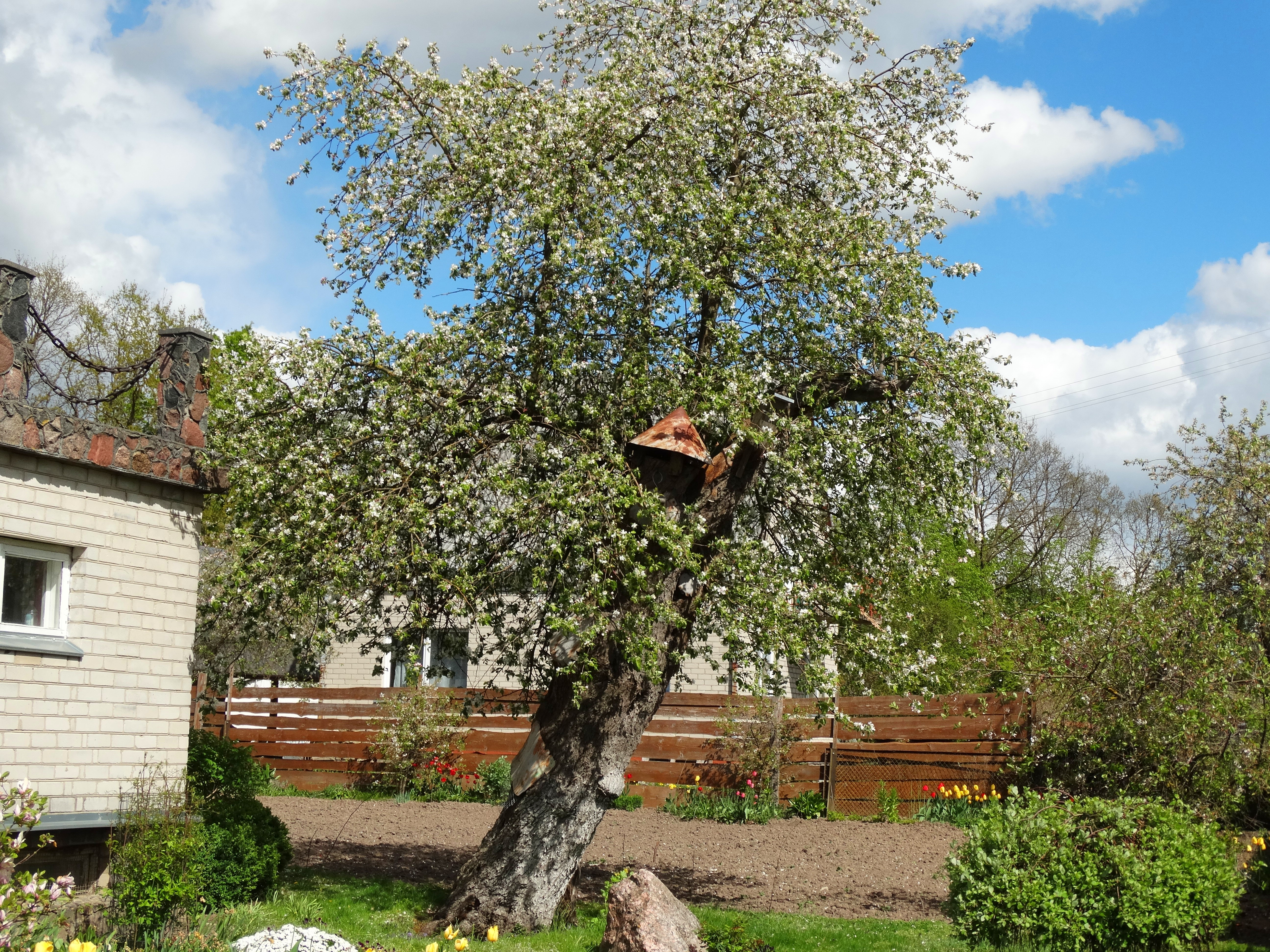 Old apple tree, Kaunas, Lithuania